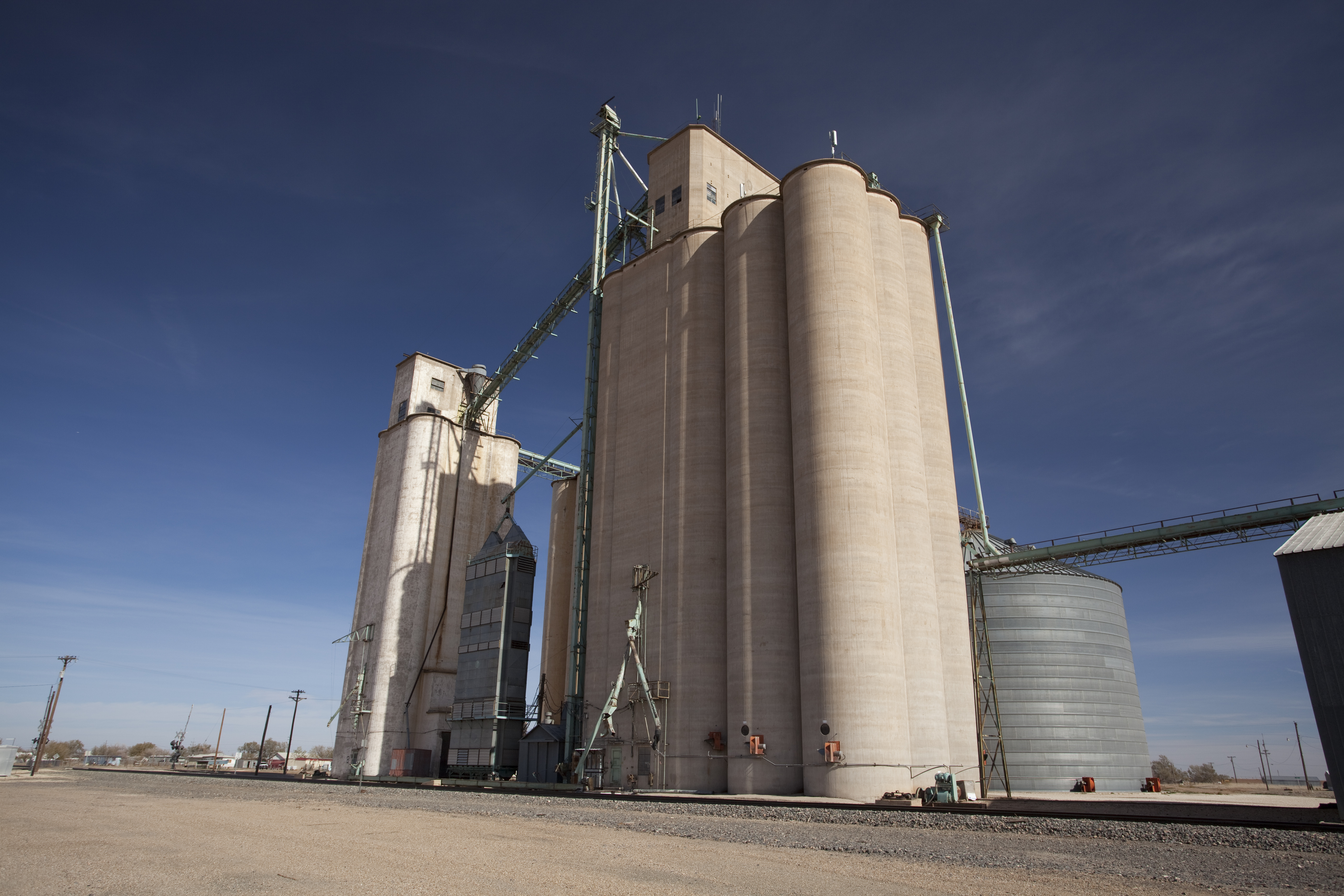 Grain elevator along the tracks in Hale Center, Texas.